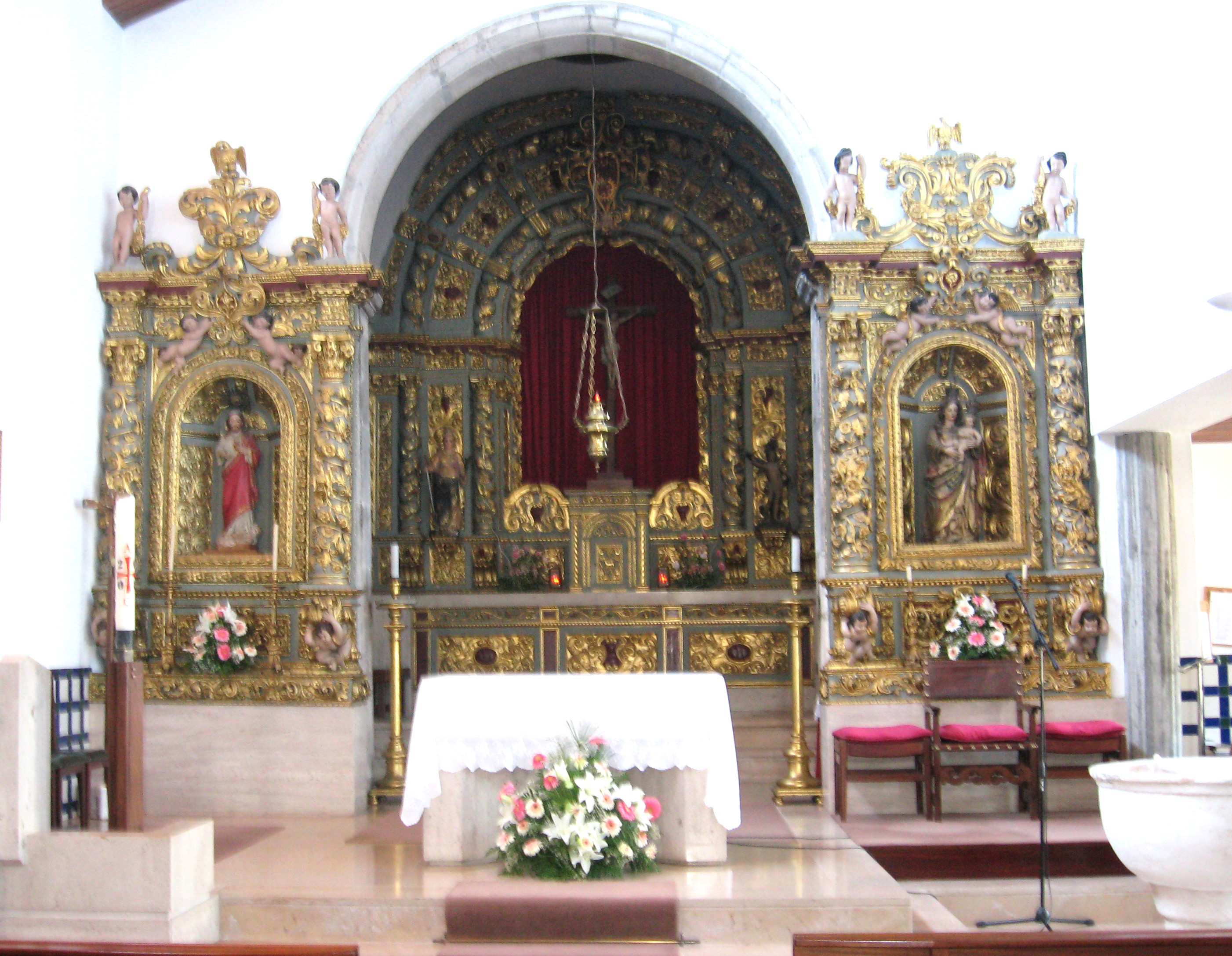 Alcobaça, Portugal, Mosteiro, Coutos de Alcobaça, old county of the Abbey, Santa Catarina one of the the 13 cities, Church Santa Catarina, 16th century, altar of 17th/18th century